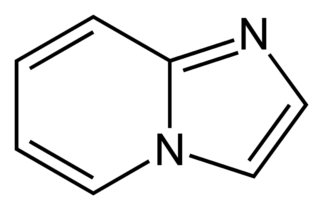 Skeletal formula of the imidazo[1,2-a]pyridine molecule, C7H6N2.